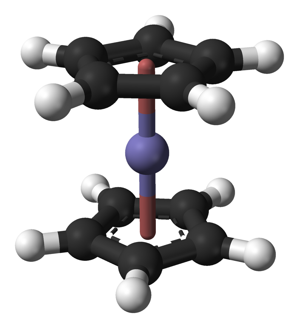 Ball-and-stick model of the ferrocene molecule, [Cp2Fe], as found in the monoclinic crystal structure. X-ray crystallographic data from Acta Cryst. (1997). B53, 928-938.